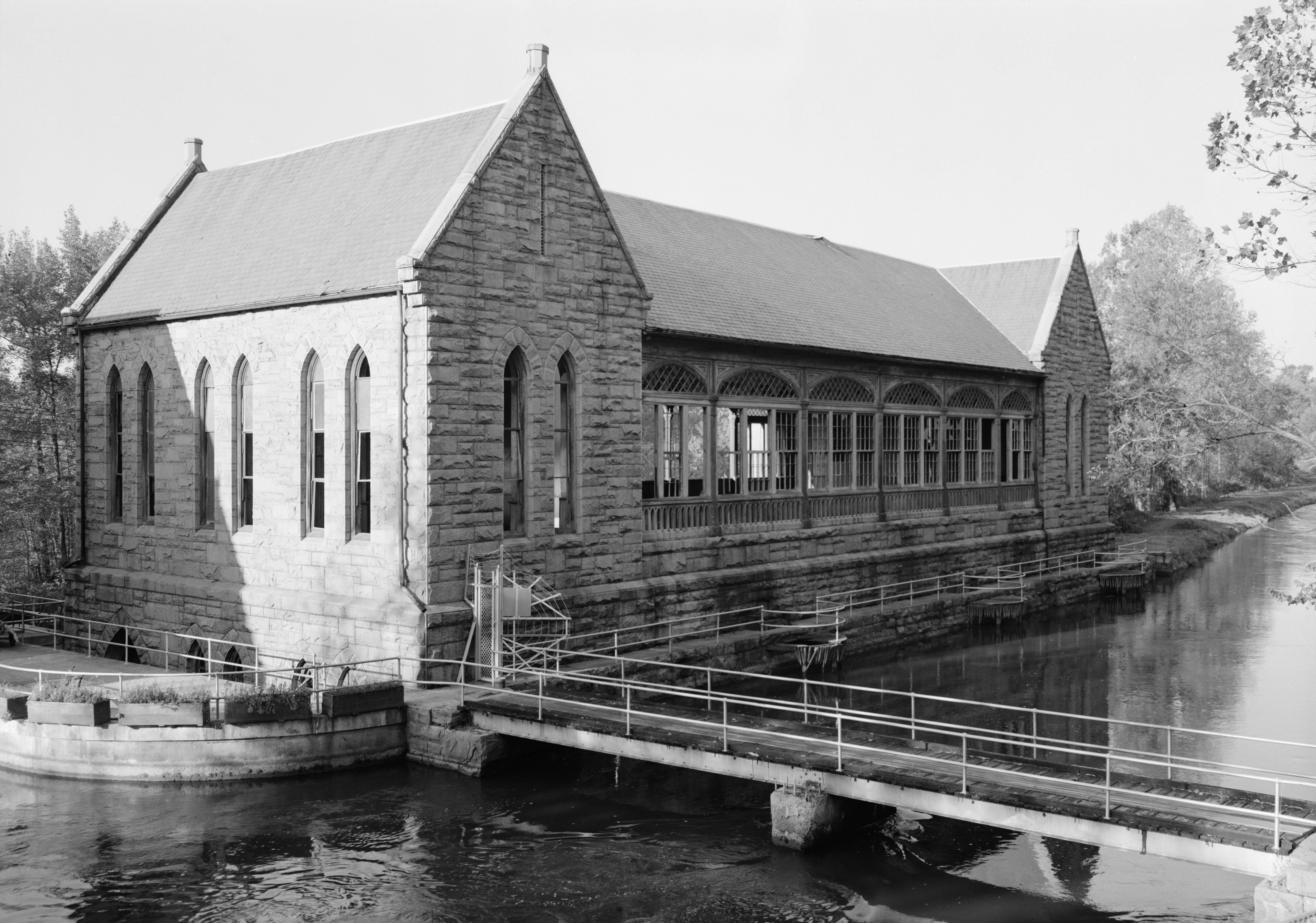 New Pump House, Richmond Virginia, general view of the house from north.